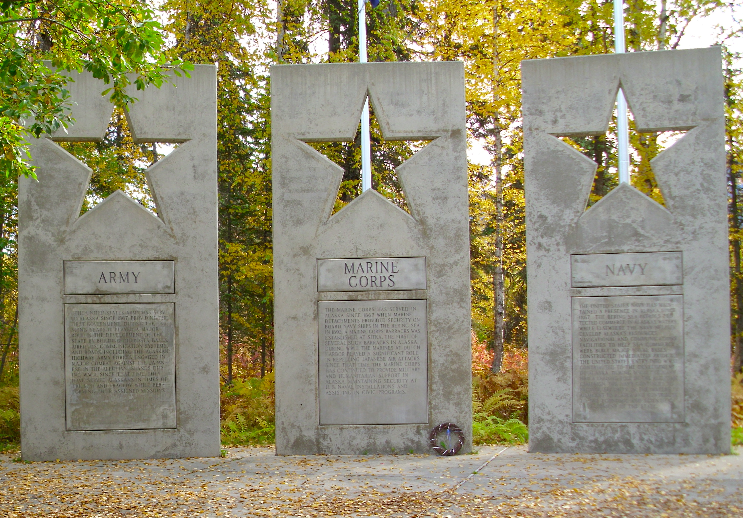 Three of the five large memorials at the Alaska Veterans Memorial